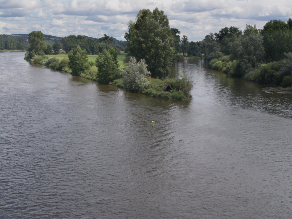 Confluence of the Elbe (left) and the Ohře (right) in Litomeřice) (photo taken in 2005).